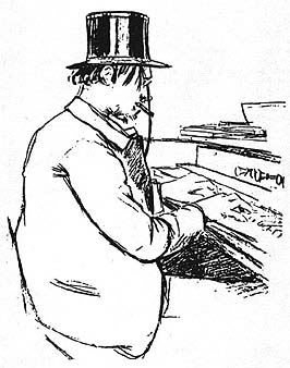 Santiago Rusinol, Erik Satie tocando el armonium, created 1891